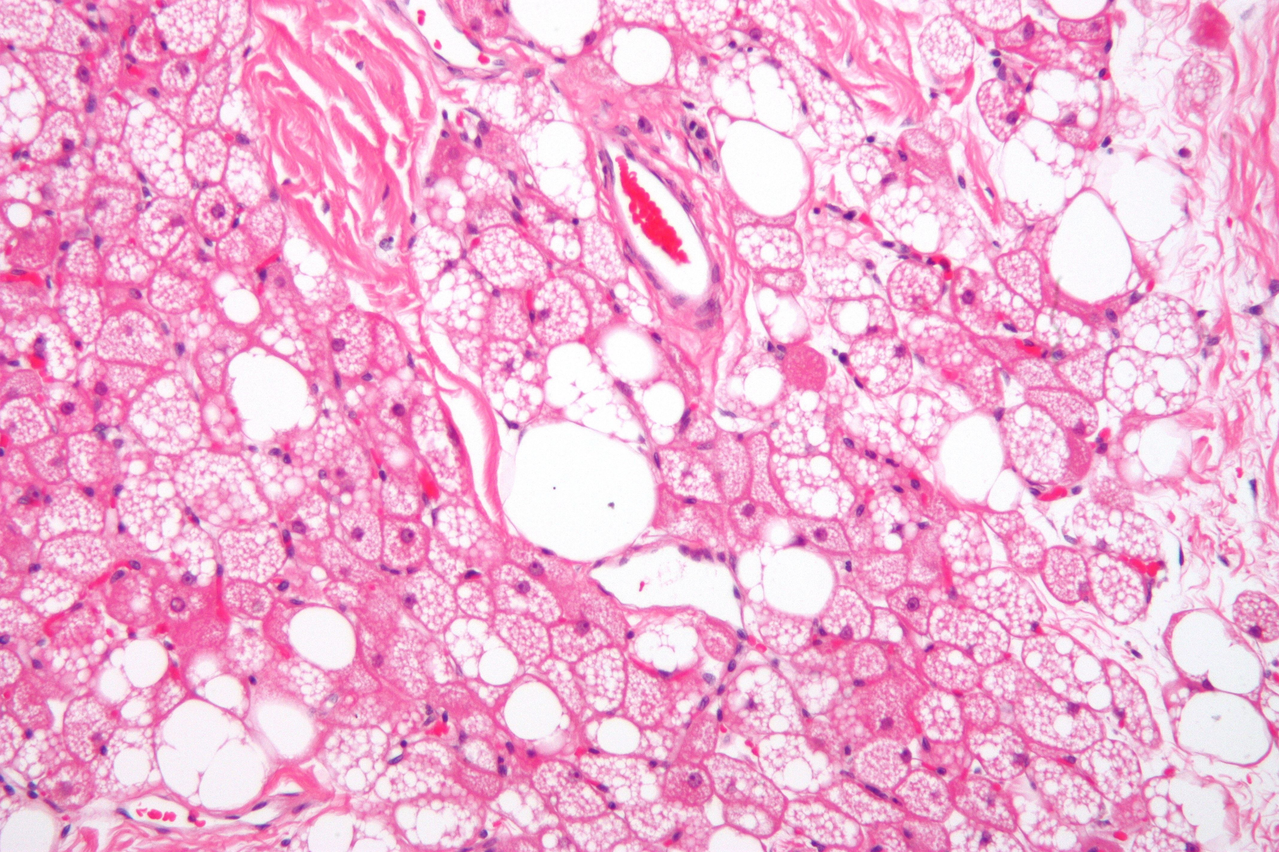 Intermediate magnification micrograph of a hibernoma, an uncommon benign soft tissue tumour, that is thought to arise from brown fat. H&E stain. Features: Large polygonal/oval cells: Nucleus - central location, small. Cytoplasm - multivacuolated, oval, eosinophilic, granular. See also Image:Hibernoma1.jpg - high magnification. Image:Hibernoma3.jpg - low magnification.